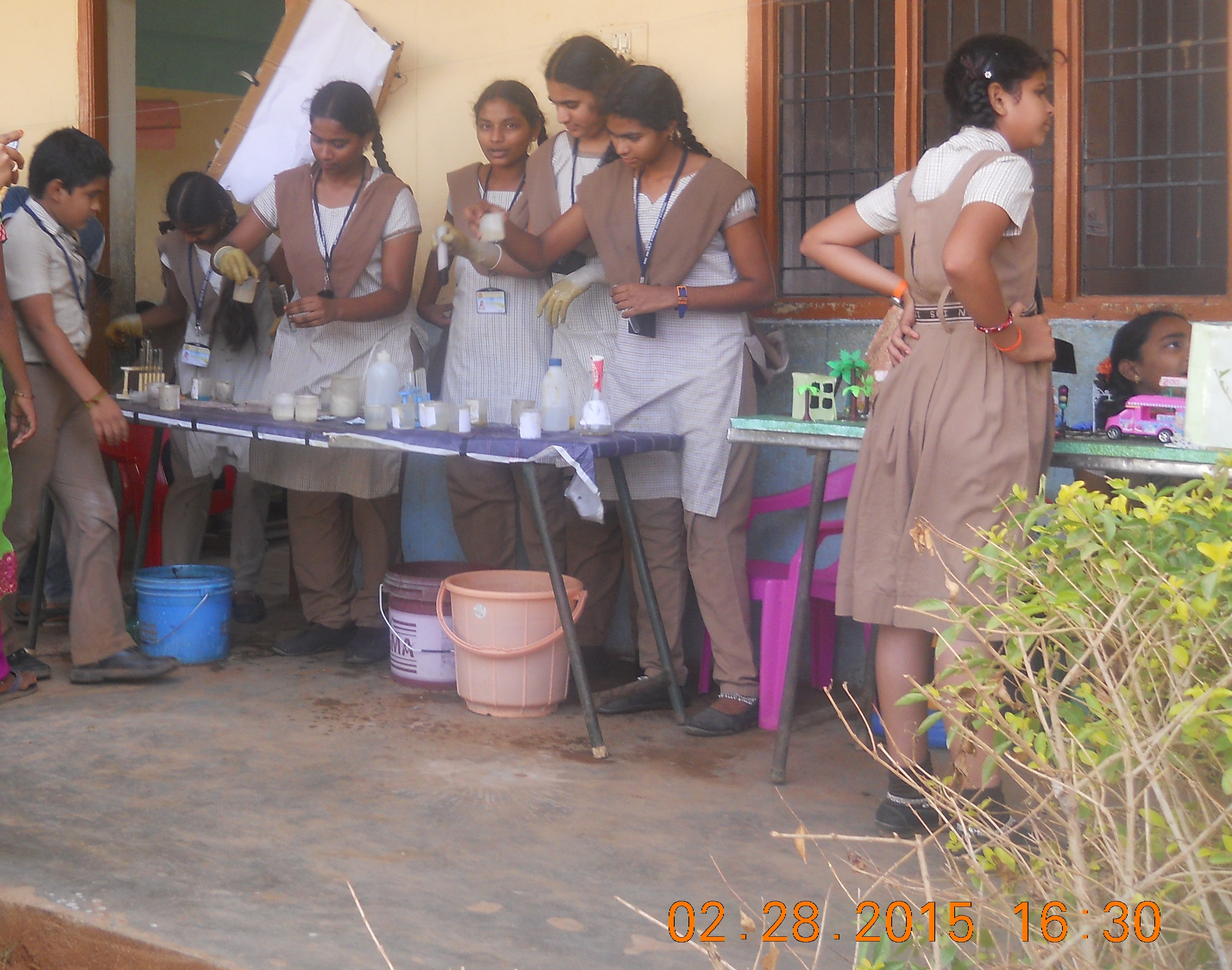 National Science Day in India